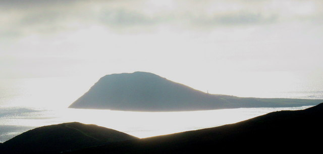 Ynys Enlli Enlli consists of the barren Mynydd Enlli ("Enlli mountain") on the eastern side of the island and low lying farm lands on the western side. The outline of the Bardsey lighthouse can be seen in the centre of the photo.